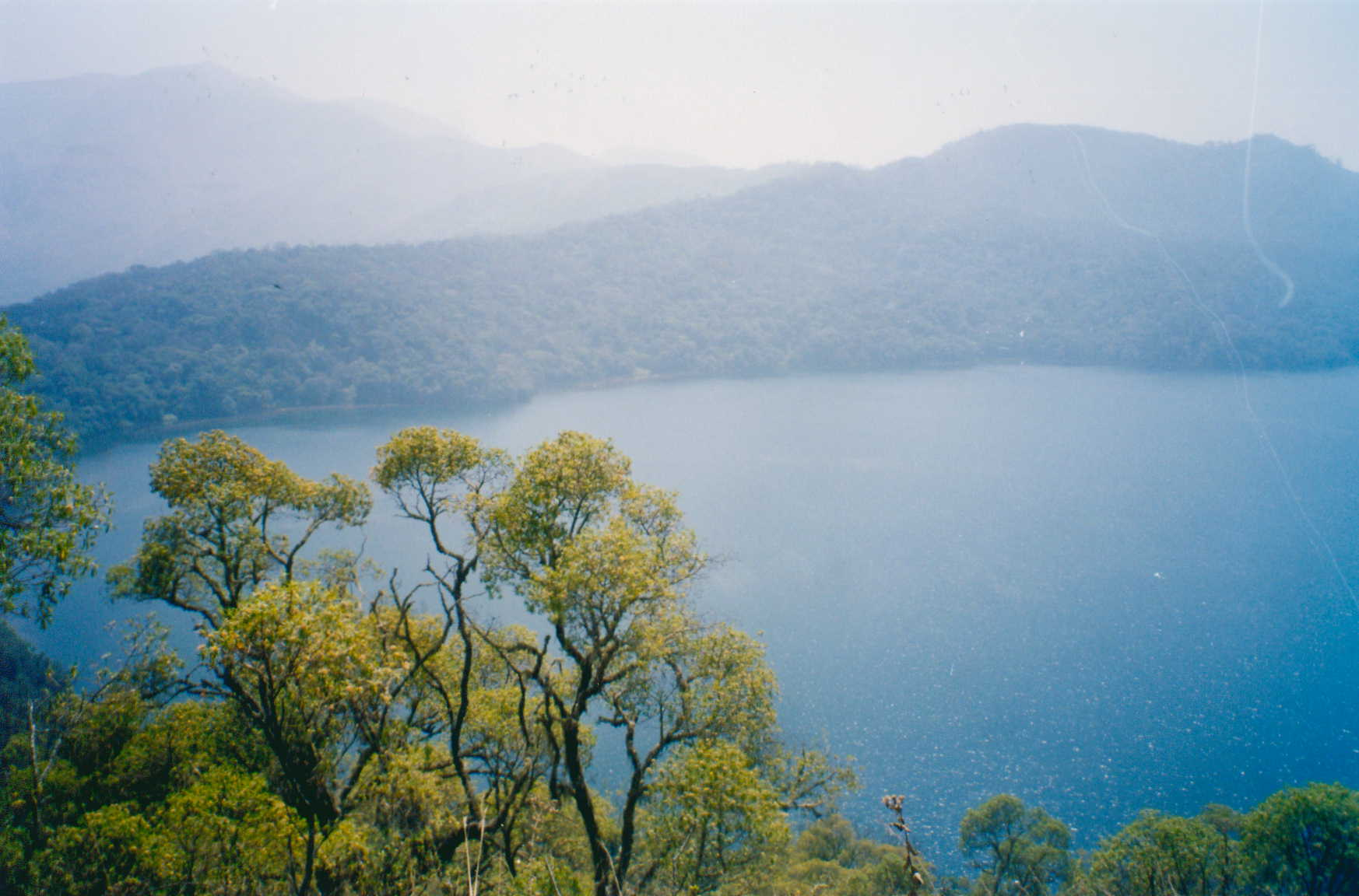 Description:Lake Oku, Northwest Province, Cameroon. Author: own work